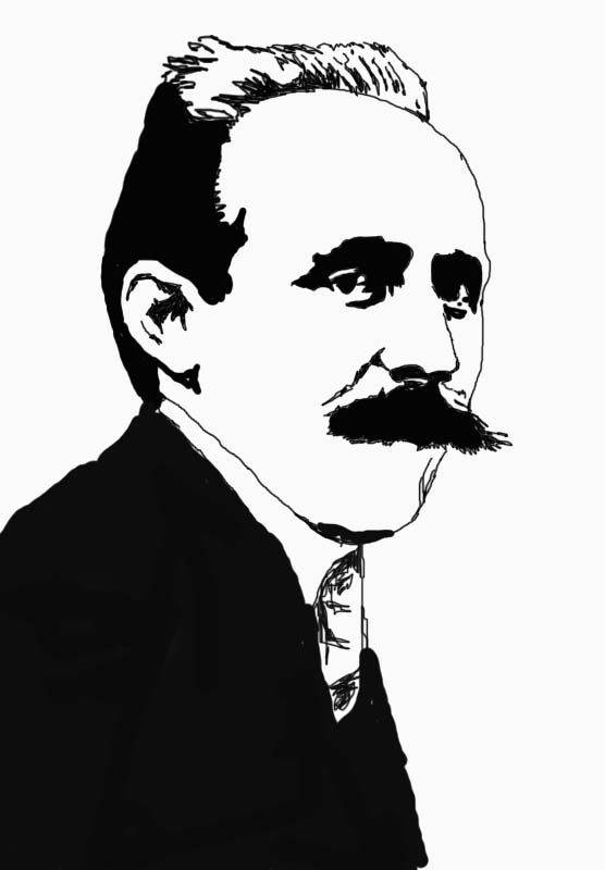 Painted in photoshop